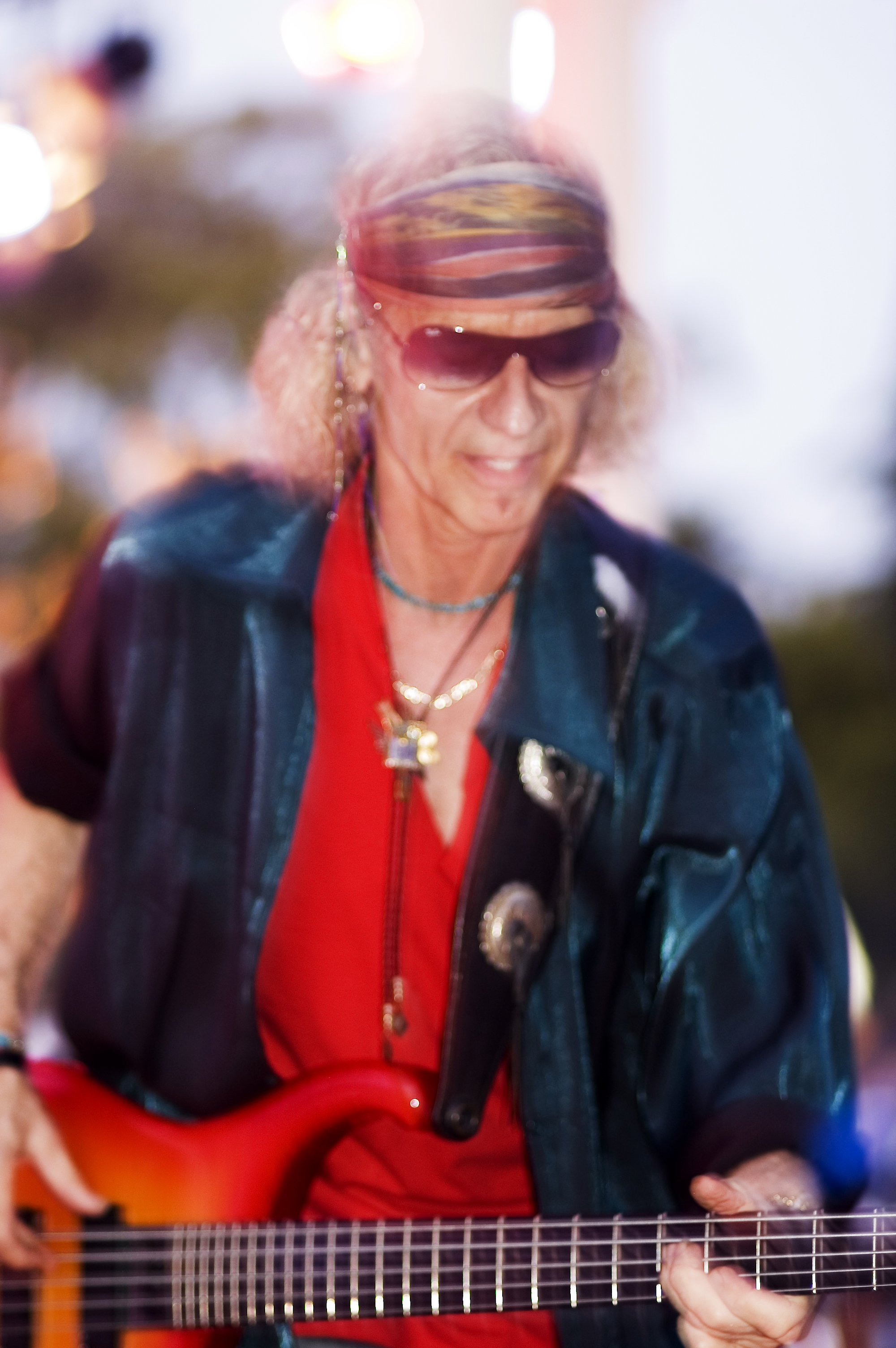 Nick St. Nicholas. Formerly of Steppenwolf. World Classic Rockers Concert, 6/23/2007 Camarillo, CA